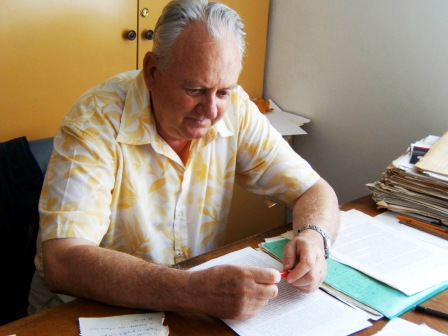 profesor doctor Vasile Ursachi